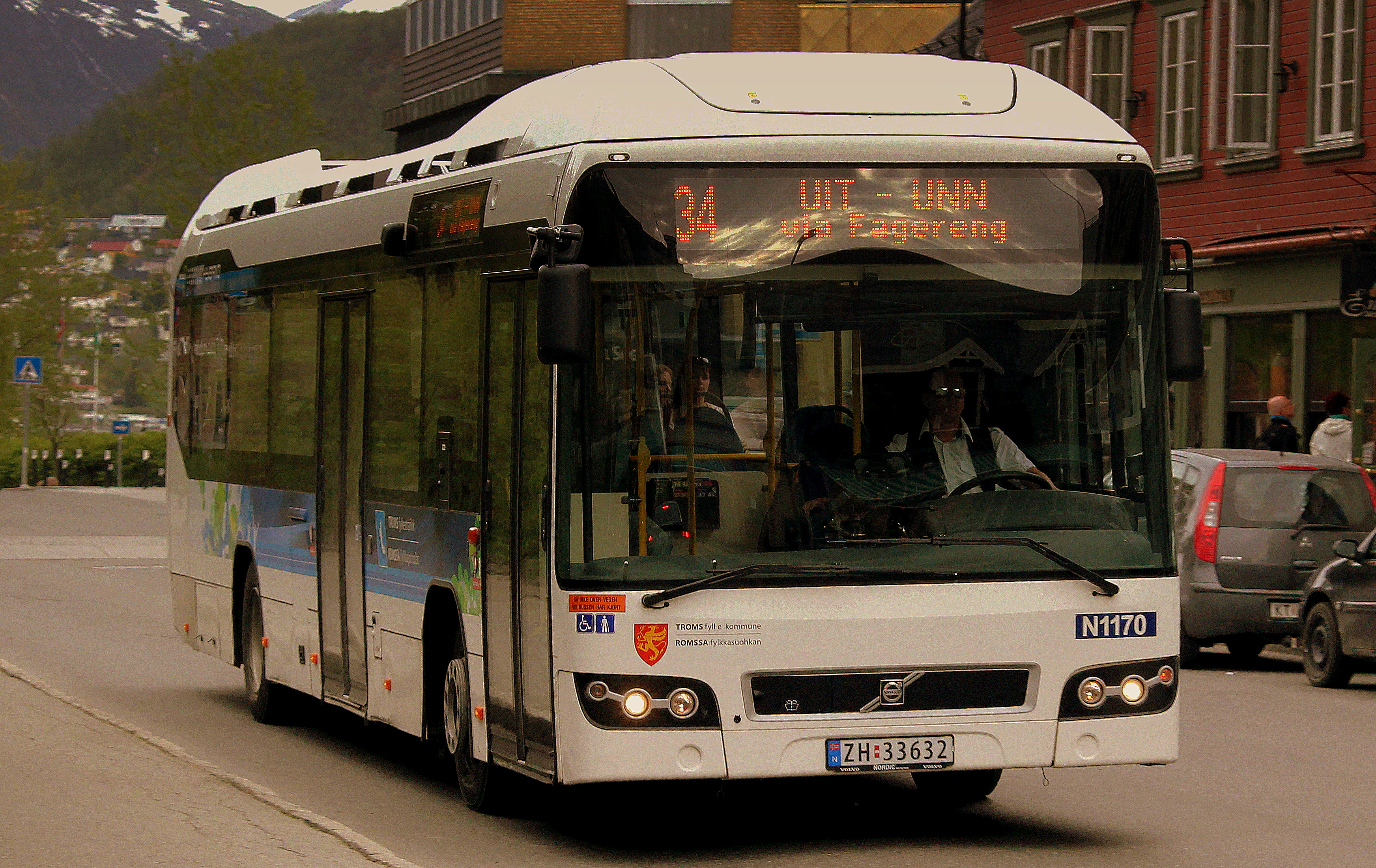 TROMSO BUS ROMSSA VOLVO SINGE DECK OPERATING ROUTE 34 IN THE STREETS OF TROMSO NORWAY JUNE 2014